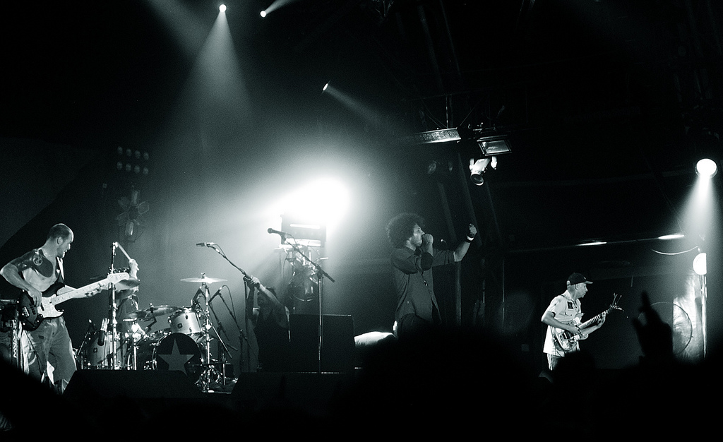 Rage Against The Machine at Big Day Out 2008, Flemington Racecourse, Melbourne. Zack de la Rocha, Tom Morello, Tim Commerford, Brad Wilk